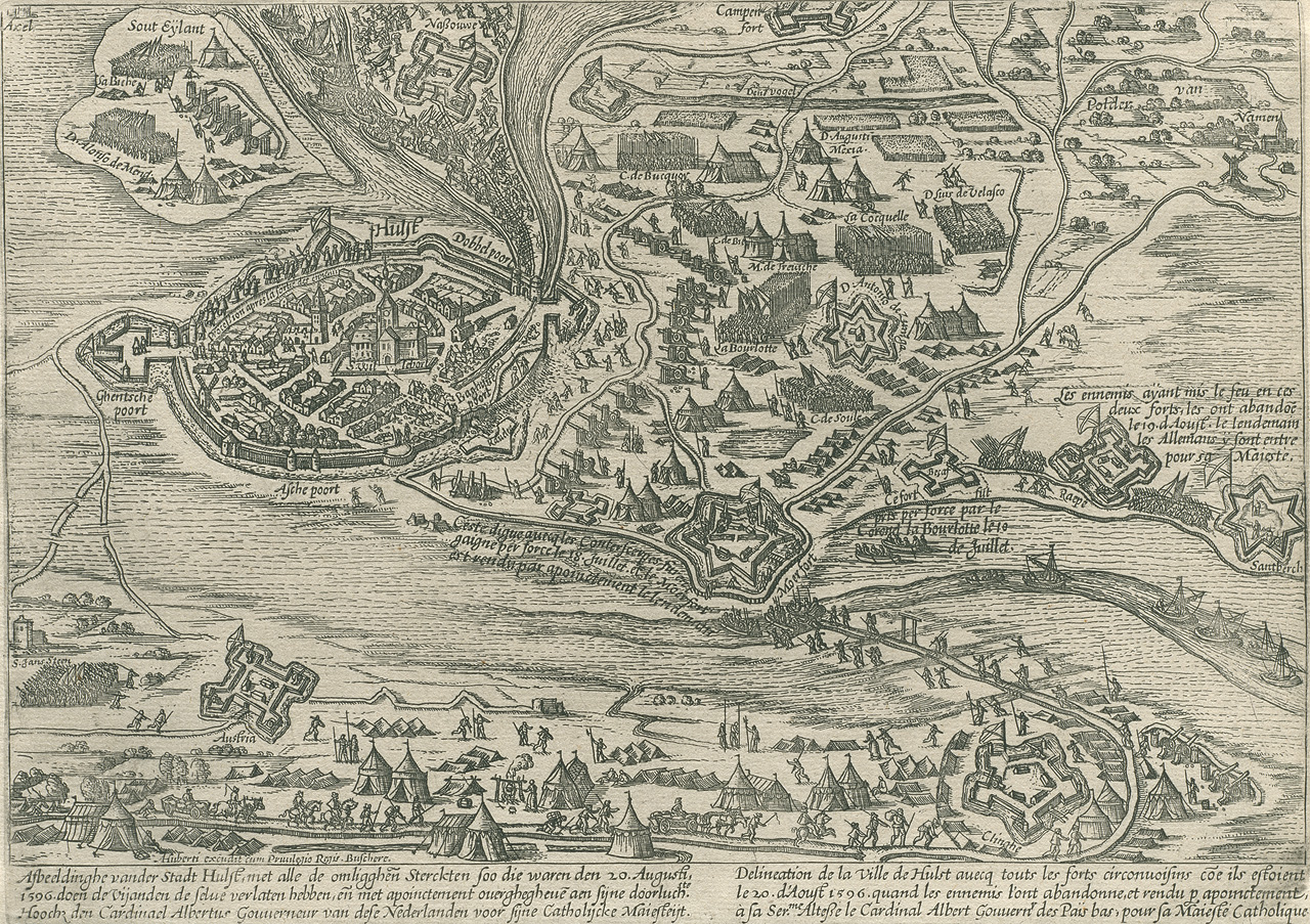 Depiction of the capture of Hulst, the Netherlands, by Albert VII, Archduke of Austria on behalf of the King of Spain, 20 August 1596. The bilingual caption is written from a Spanish point of view.